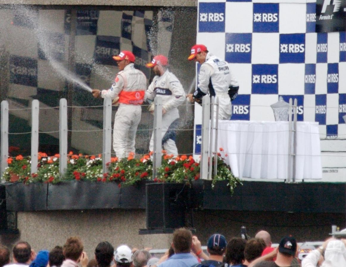 Lewis Hamilton, Nick Heidfeld and Alexander Wurz on the podium of the 2007 Canadian GP.